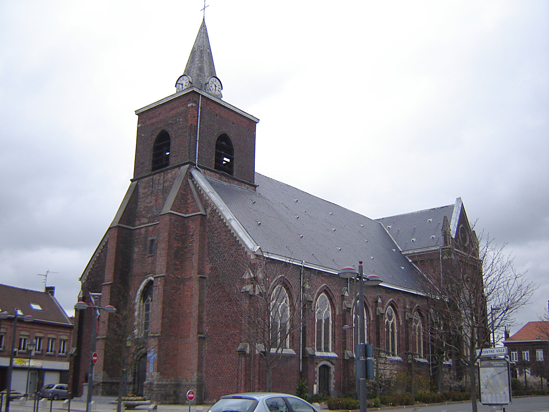 Church of Saint Quirinus in Neuville-en-Ferrain. Neuville-en-Ferrain, Nord, Nord-Pas-de-Calais, France